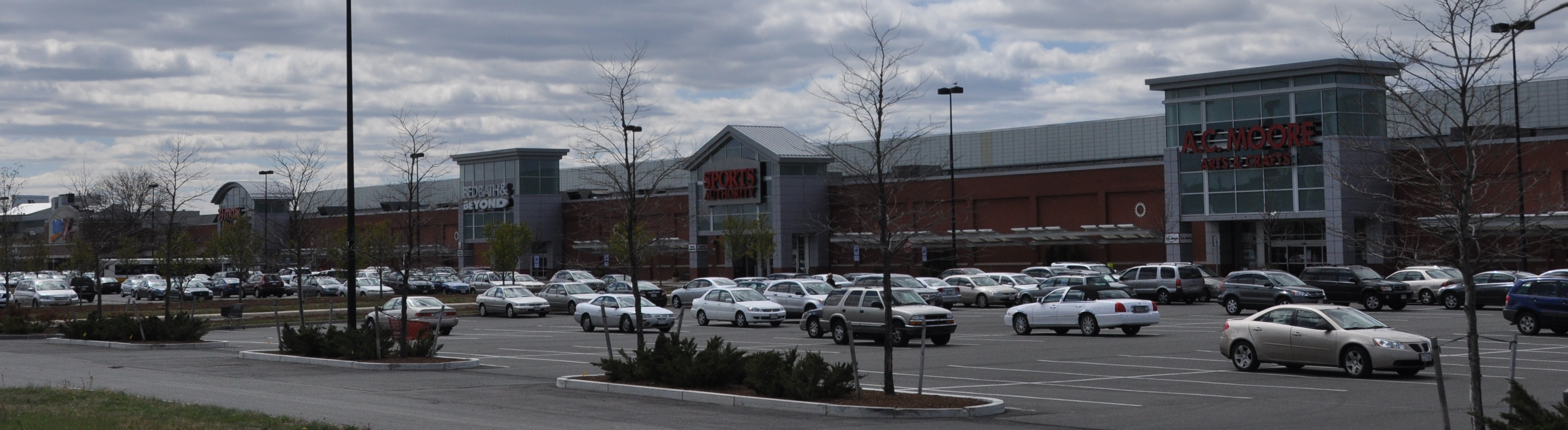 Assembly Square Marketplace in Somerville, Massachusetts.